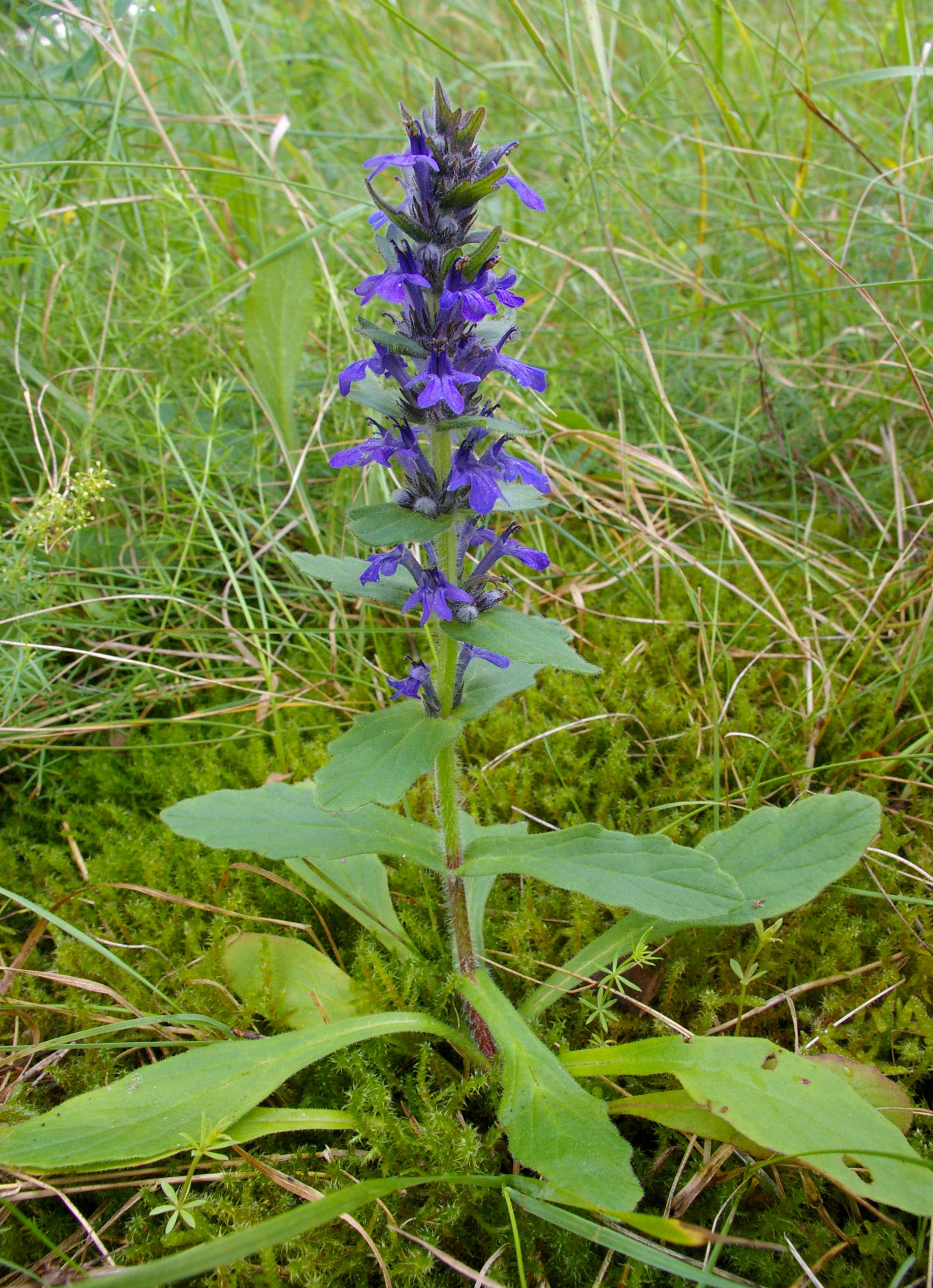 Habitus of flowering Ajuga genevensis (Lamiaceae).